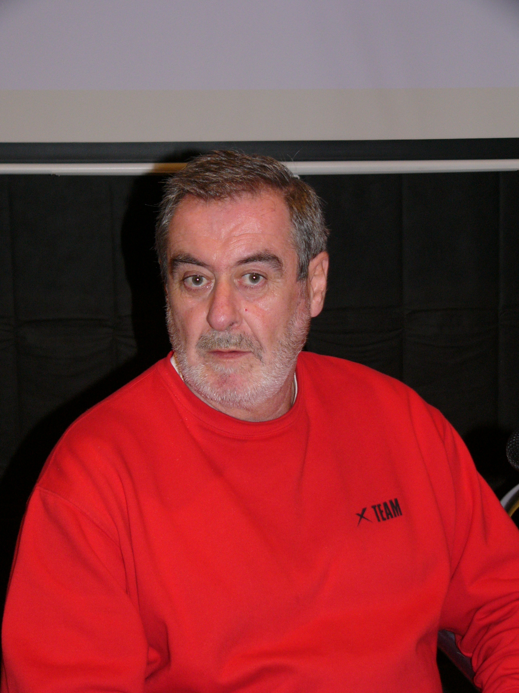 Czech musician, vocalist and ... Michal Prokop